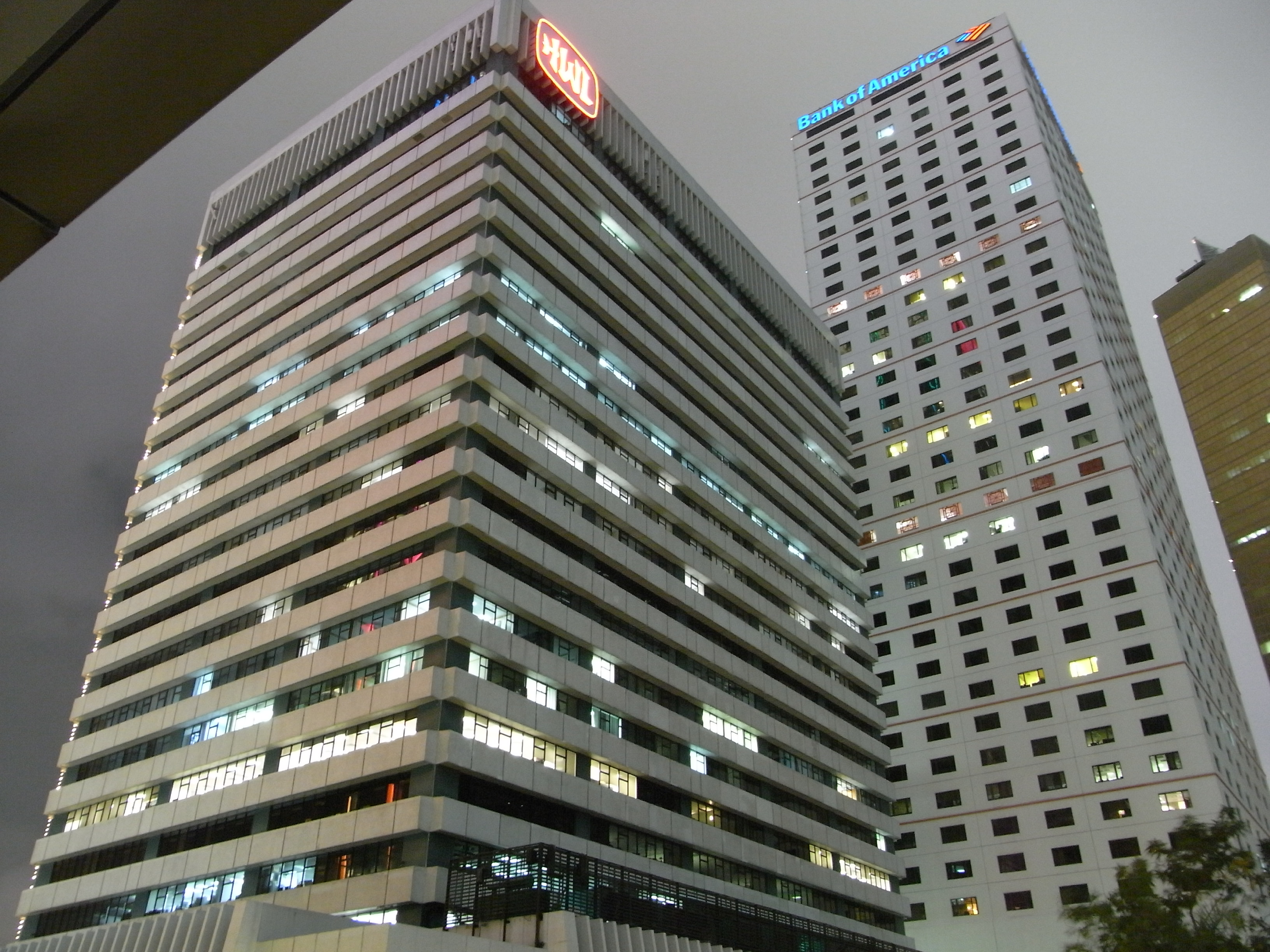 2010年2月zh:香港金鐘